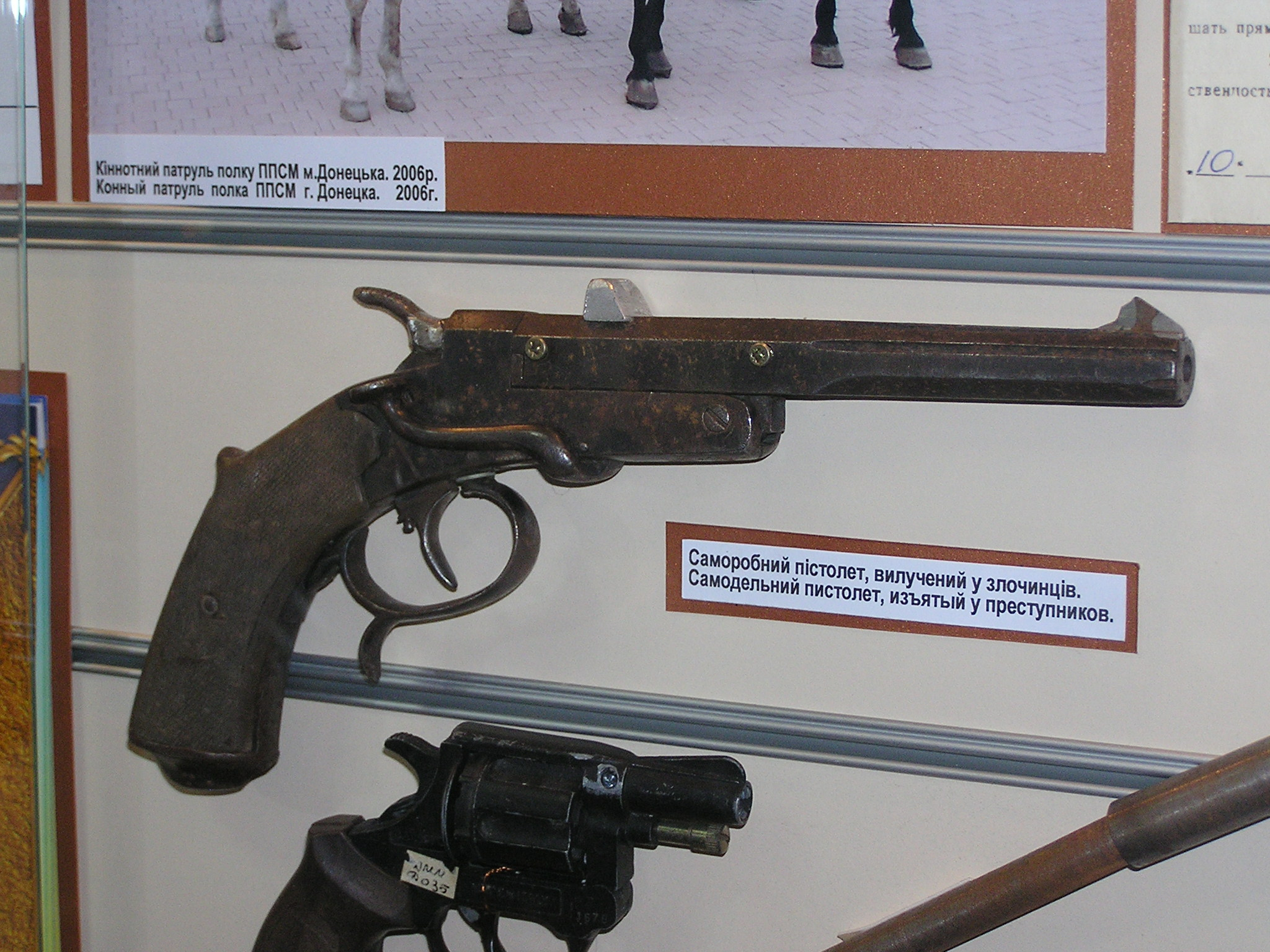 Museum of the History of Donetsk militsiya (Police) - handmade criminal gun